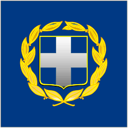 Distinguishing Flag of the President of the Hellenic Republic (President of Greece) . Used to show the presence of the President of the Republic (in vehicles, buildings etc). This flag also used as a Rank flag in Hellenic Navy's ships mainmast when the President of the Republic is aboard (according to Article 45 of the Constitution the President of the Republic 'is the symbolic head of the Armed Forces' so as Rank flag this flag regarded as similar to the flag of an Admiral of the Fleet or superior)